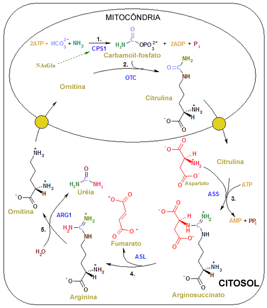 Urea cycle, in portuguese